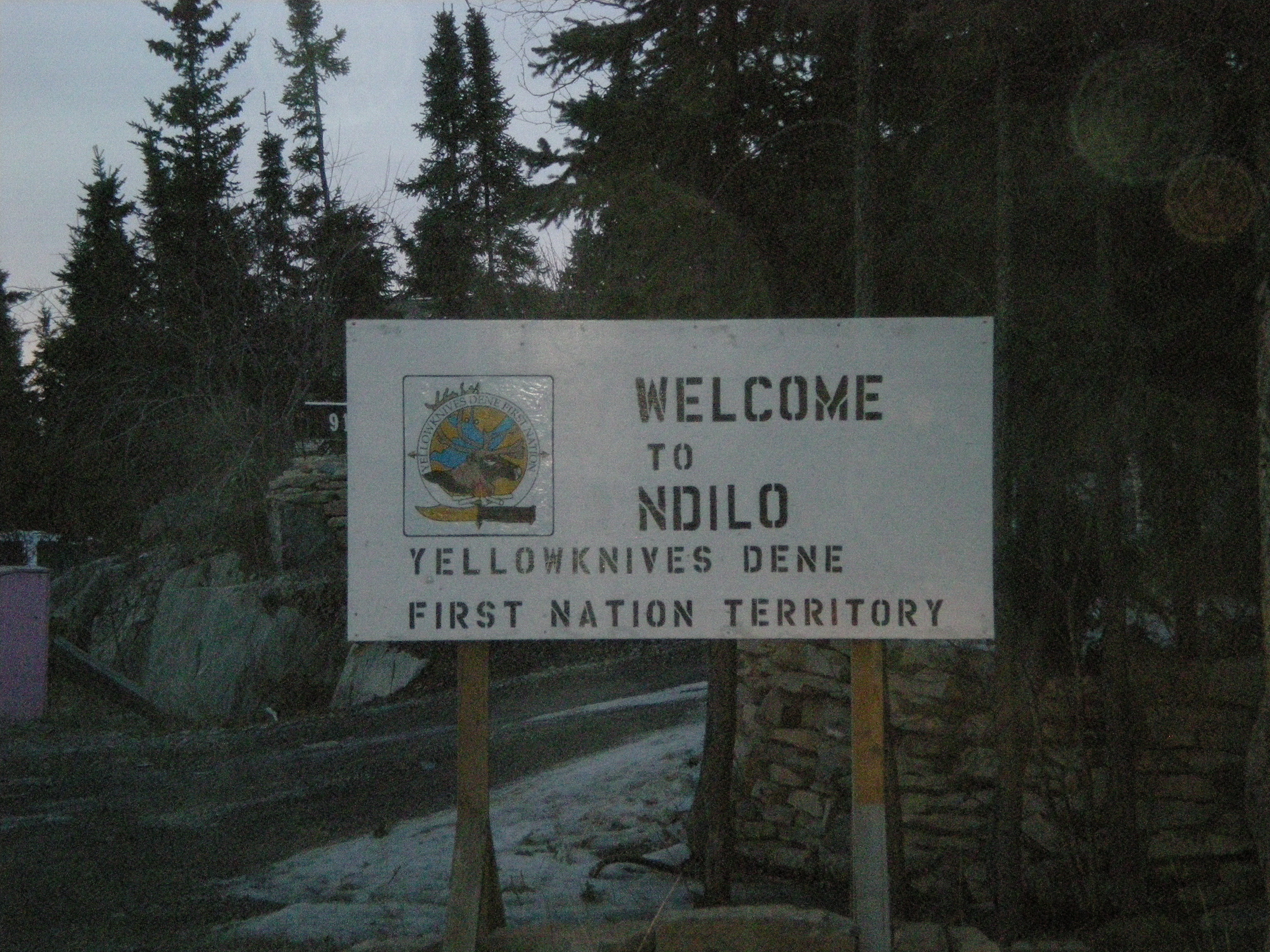 Welcome to N'Dilo